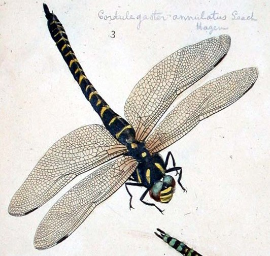 Cordulegaster boltonii cropped from File:Moses Harris01.jpg. Harris was the first to illustrate and describe this species, but wrongly identified it as Libellula forcipata (now Onychogomphys forcipatus), a different species which Linnaeus had described. Harris guessed the eye colour as blue; living specimens have green eyes, dried specimens brown.